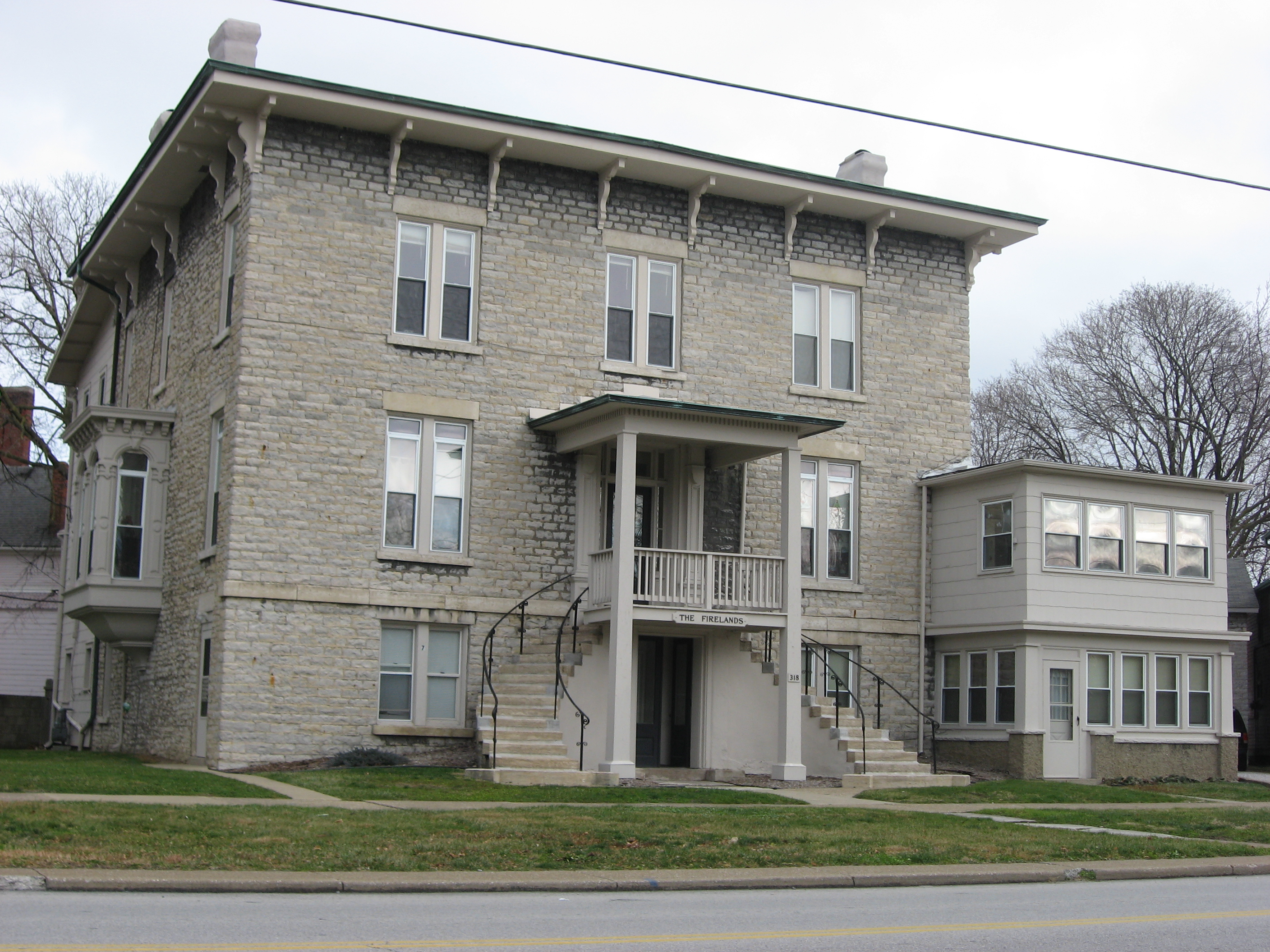 Front of the Ebenezer Lane House, located at 318 Wayne Street (U.S. Route 6) in Sandusky, Ohio, United States. Built in 1853, it is listed on the National Register of Historic Places.